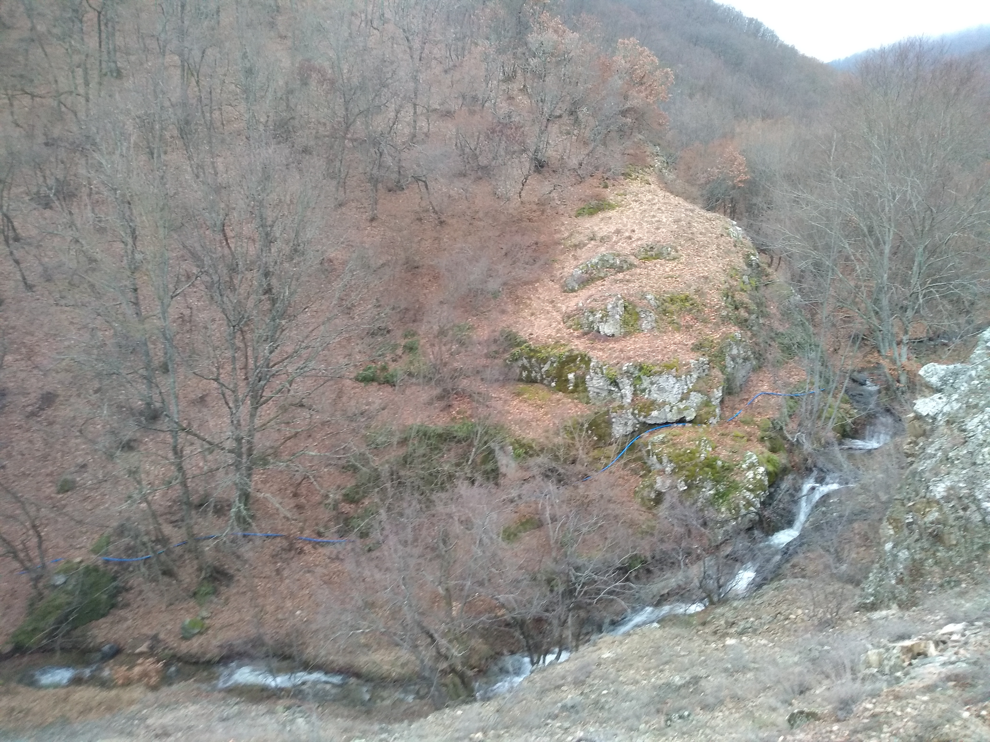 Pršovo river on Serta Mountain above Lubnica, Macedonia